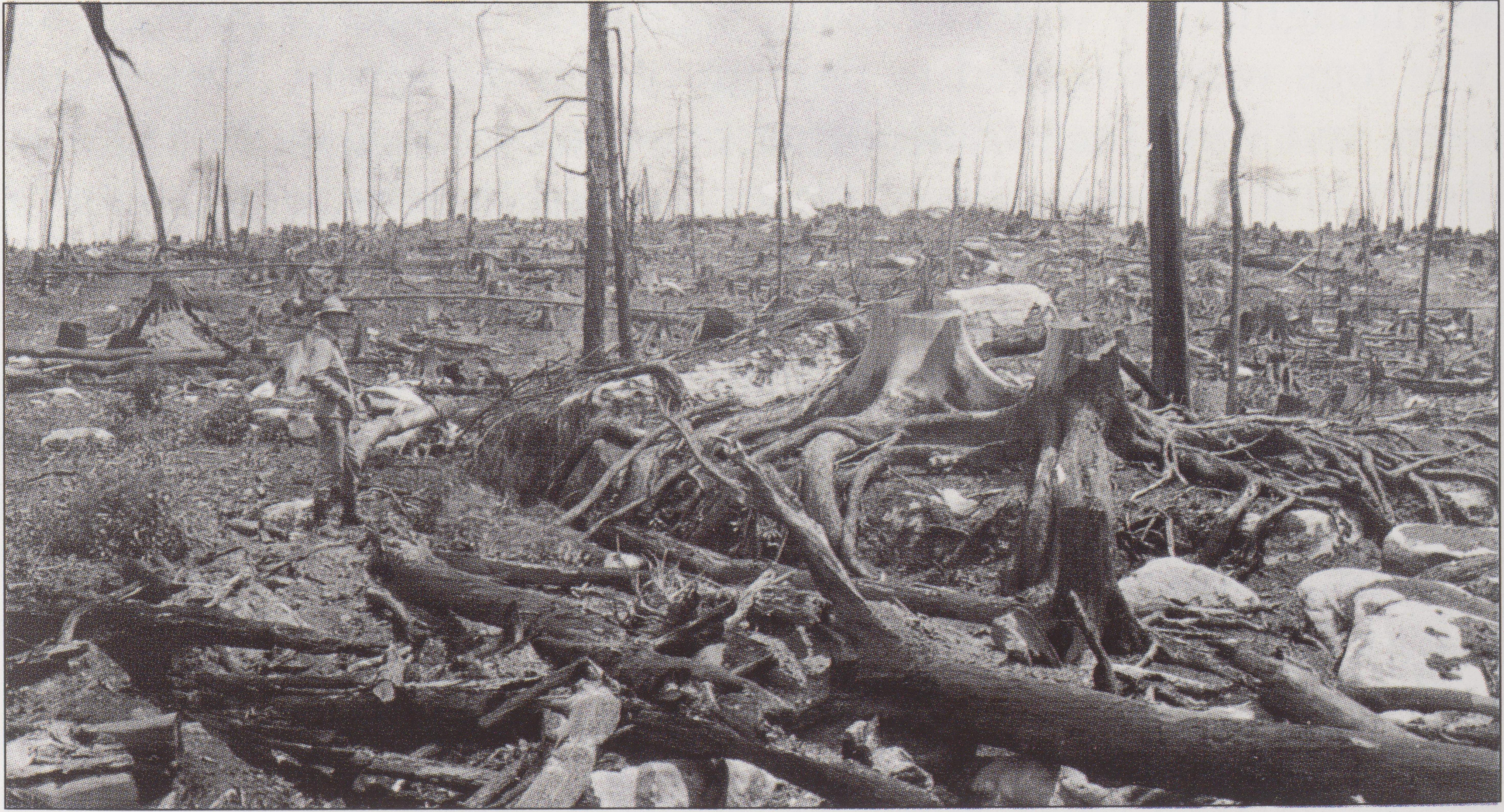 Clear cut wasteland known as the "Pennsylvania Desert" in Pennsylvania, USA